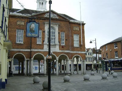 High Wycombe Guildhall